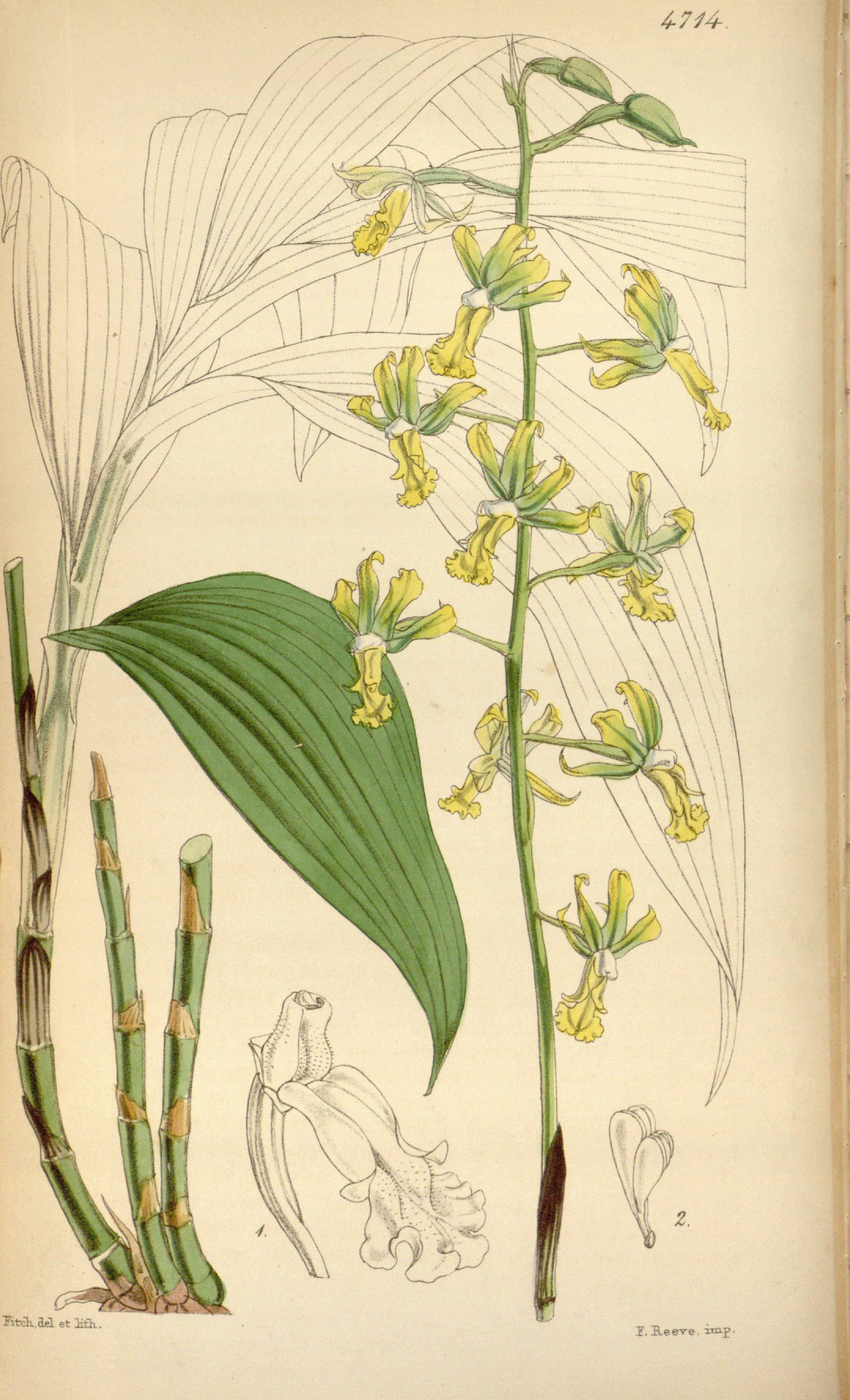 Illustration of Cephalantheropsis obcordata (as syn. Calanthe gracilis)